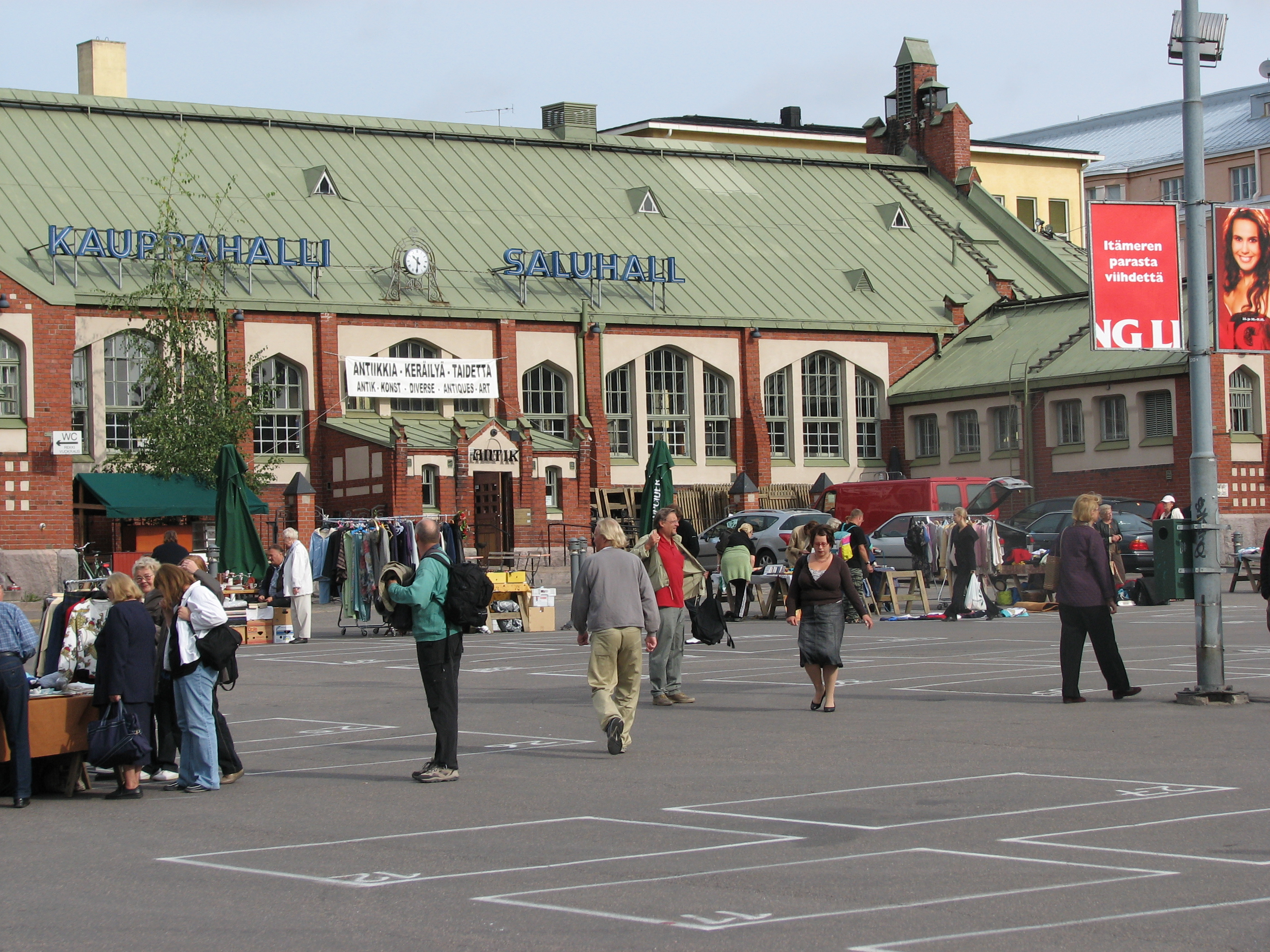 The Hietalahti market square in Helsinki. The daily flea market is just starting. The market hall (Kauppahalli, Saluhall) can be seen in the background.